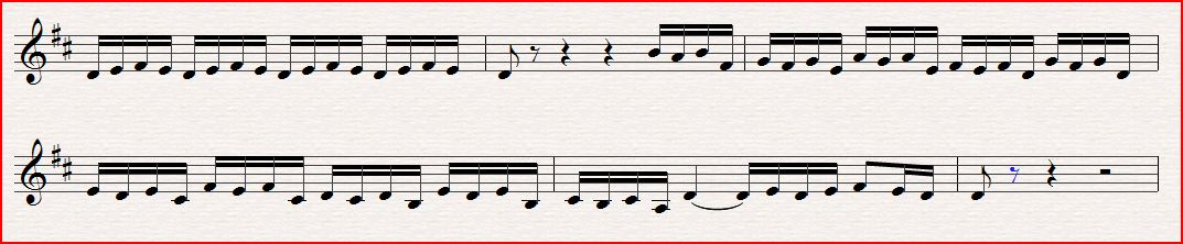 Fugue subject of BWV 532, JS Bach, digitalised into Sibelius, image captured using snipping toolJdilworth771 (talk) 01:07, 13 September 2010 (UTC)